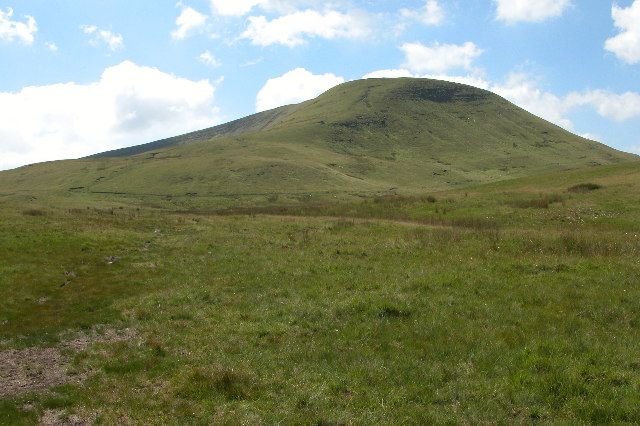 Fan Fawr. Fan Fawr viewed from Bryn Du, above the Storey Arms.